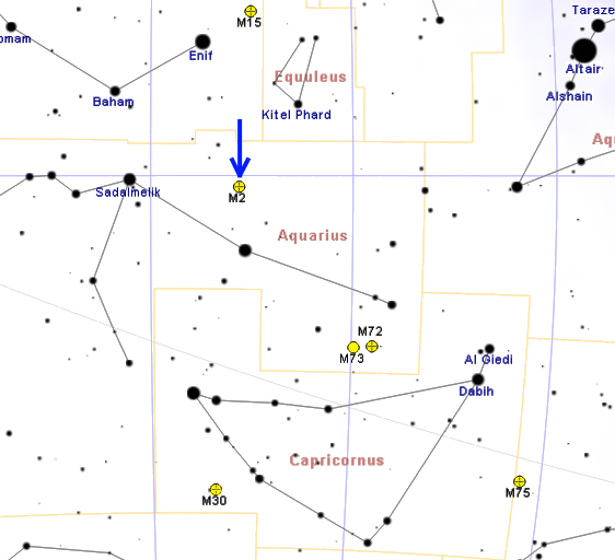 Map of M2